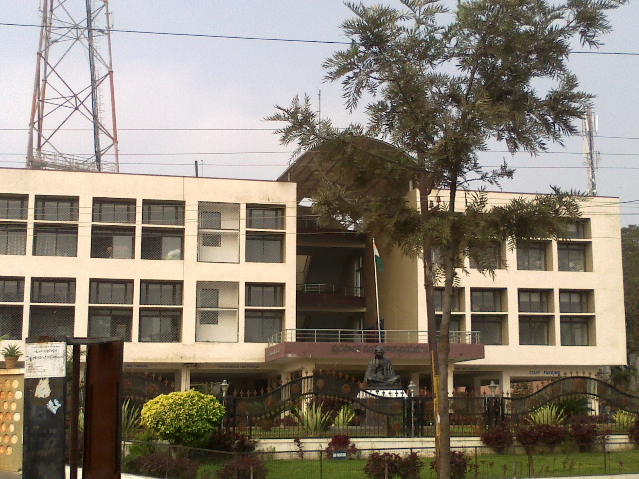 siddipe municipality complex